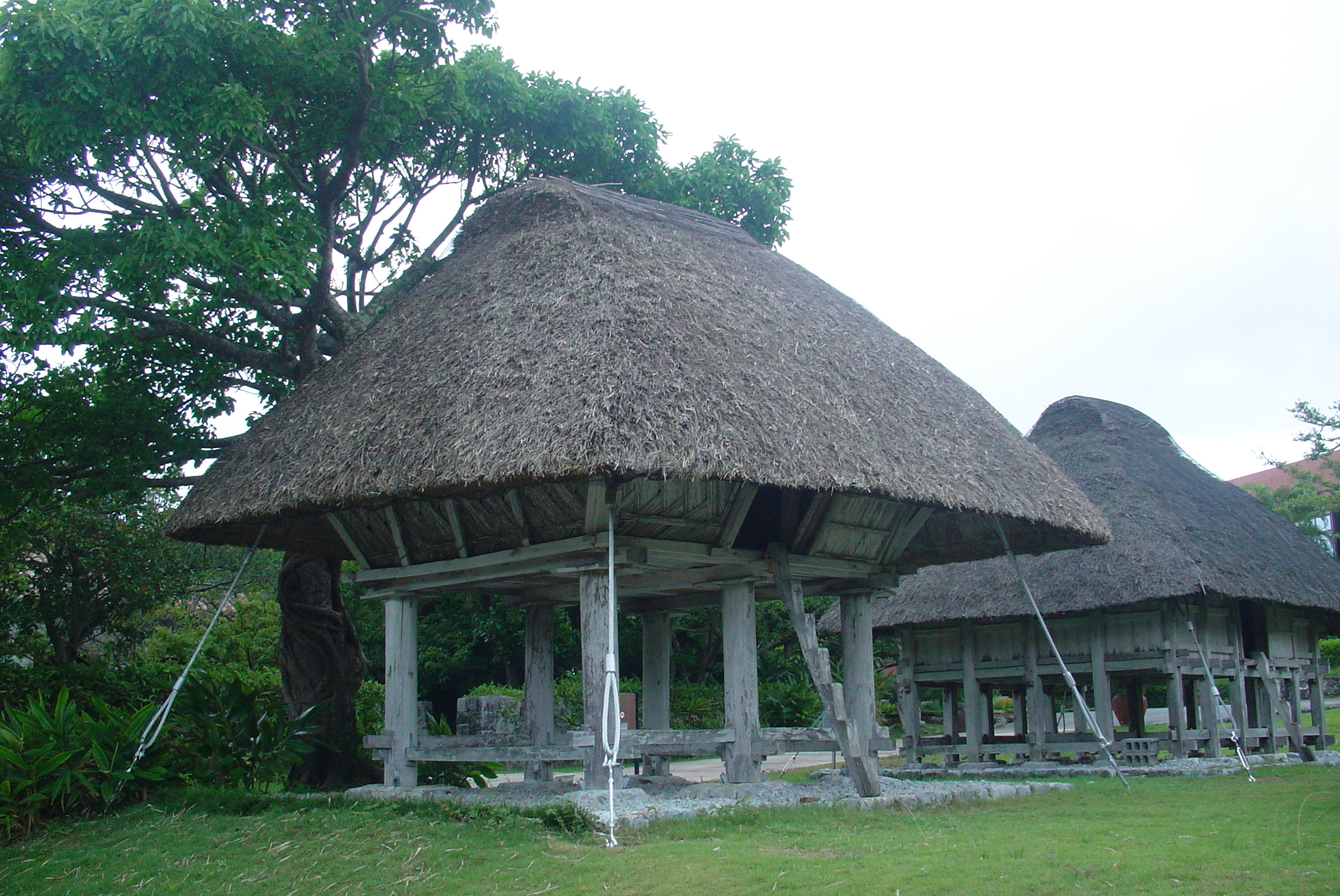 Granaries in Okinawa (Japan)